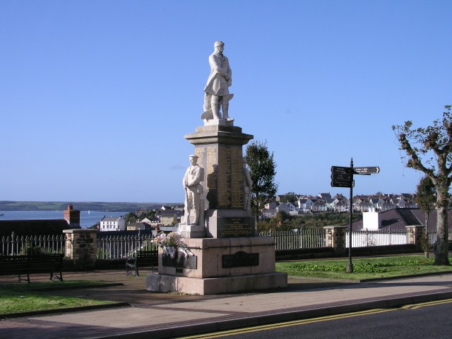 Milford Haven War Memorial